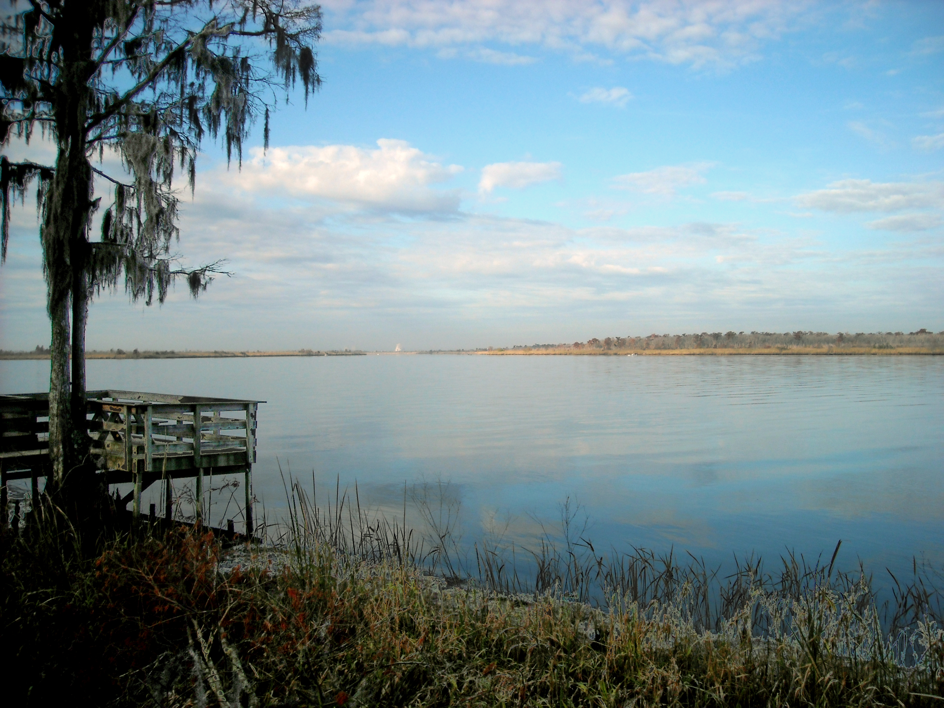 View from Historic Blakeley State Park in Baldwin County, Alabama. Mobile, Alabama is in the extreme background